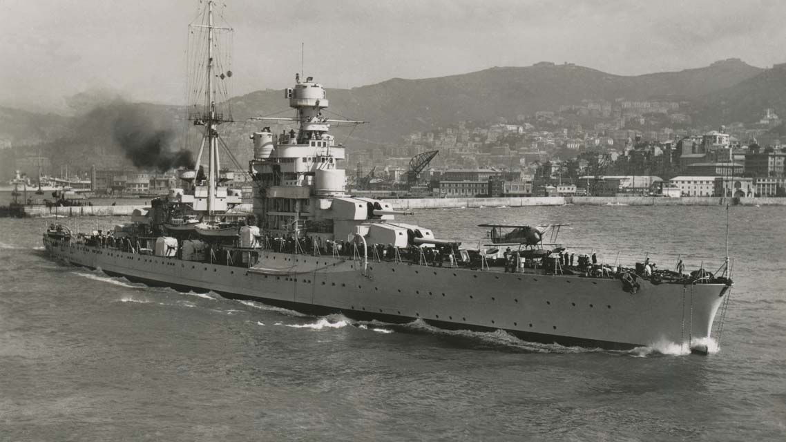 Zara on May 5, 1938